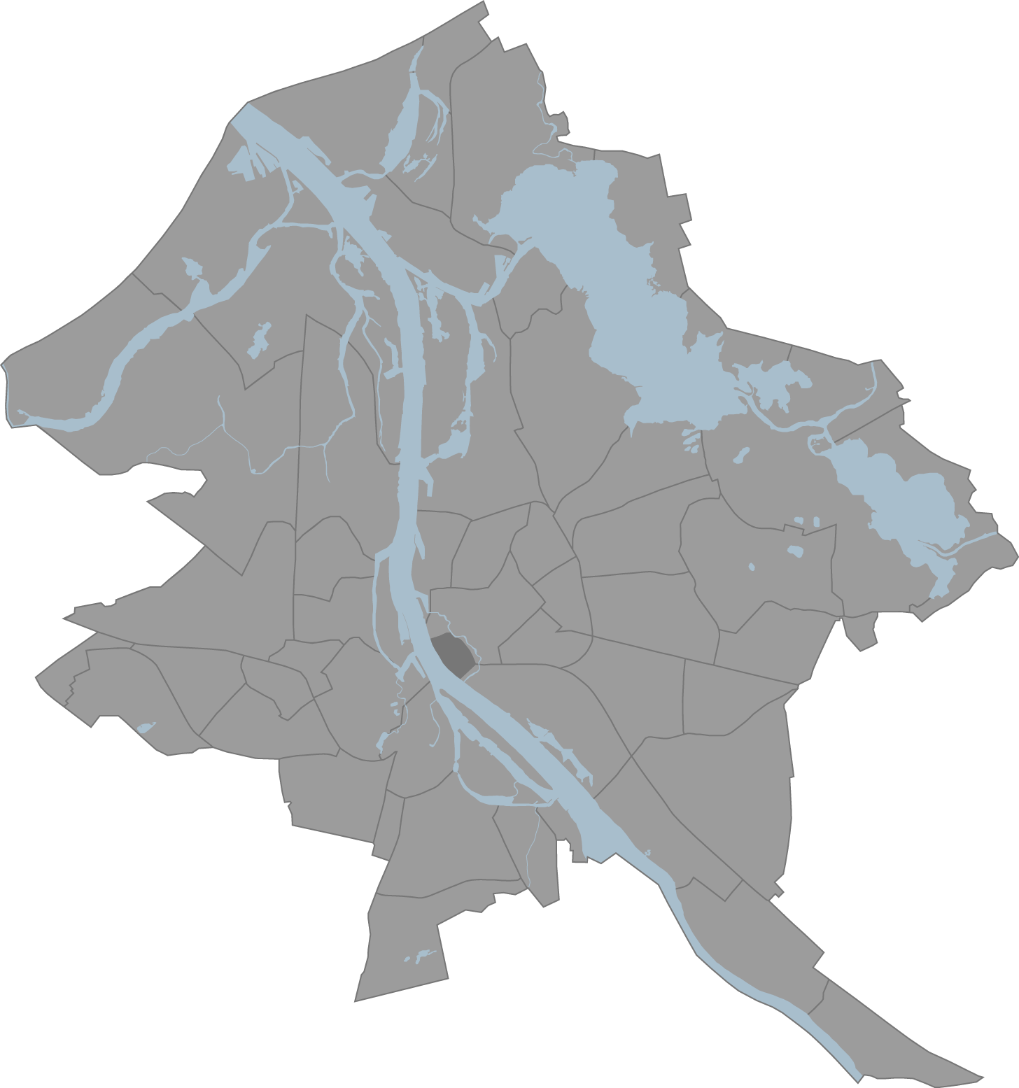 A map of Riga, Latvia with the eponymous commune highlighted